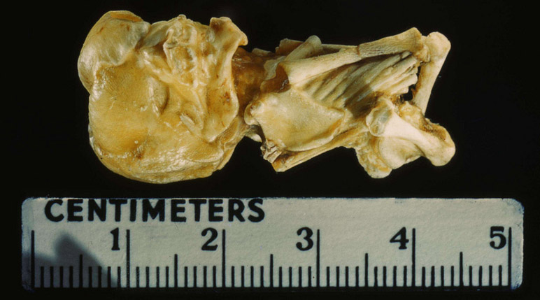 2006-0027 Lithopedian , From our accession files. Lithopedian, or calcified fetus. The lithopedian was found attached to the superior surface of the bladder just anterior to the uterus. It was adherent to the bladder and no other organs. The specimen was covered with connective tissues which were highly vascular and the surgeons failed to recognize it as a lithopedian. There was no other calcification of membrane (Ref : Lithopedian 2006-0027)